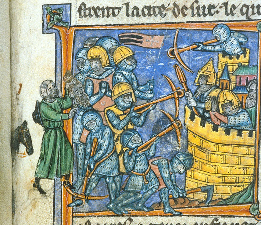 Detail of an historiated initial 'F' of the assault on Tyre, and Balac's severed head being held aloft.